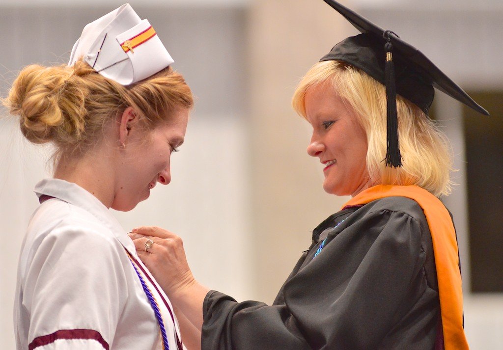 Allied Science Nursing graduate Bridget Austin (left) receives her nursing pin from Assistant Professor of Nursing Janelle Jacobs at Germanna Community College's Nursing and Health Technologies convocation on Thursday afternoon, May 14, 2015 at the University of Mary Washington campus in Fredericksburg, Va. (Photo by Robert A. Martin)